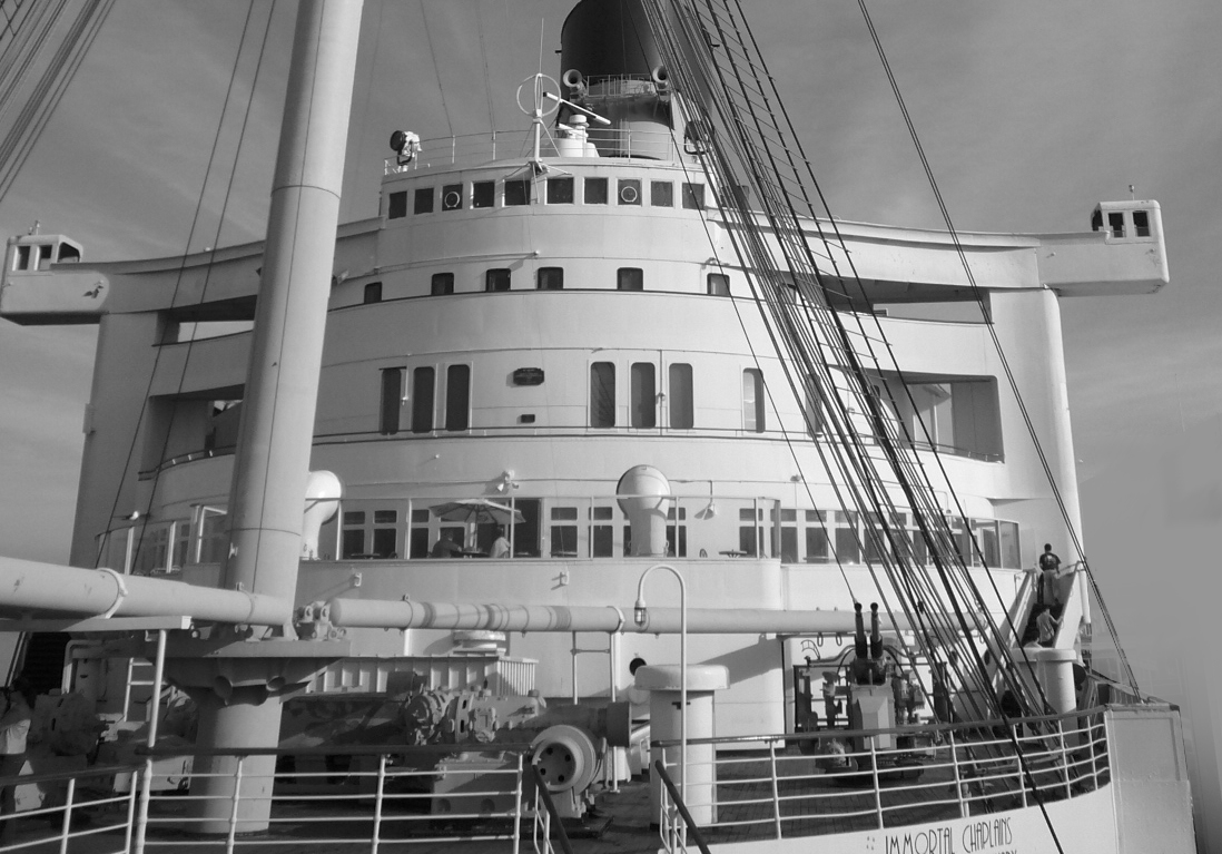 Queen Mary, Long Beach, Calif. A pair of anti-aircraft guns can be seen in the lower right section.